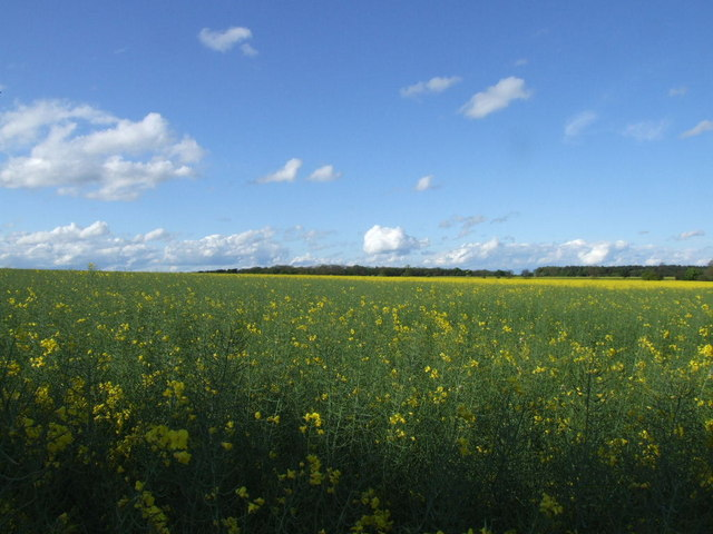 Exeter Wood and Warden Little Wood - In the distance across the field.